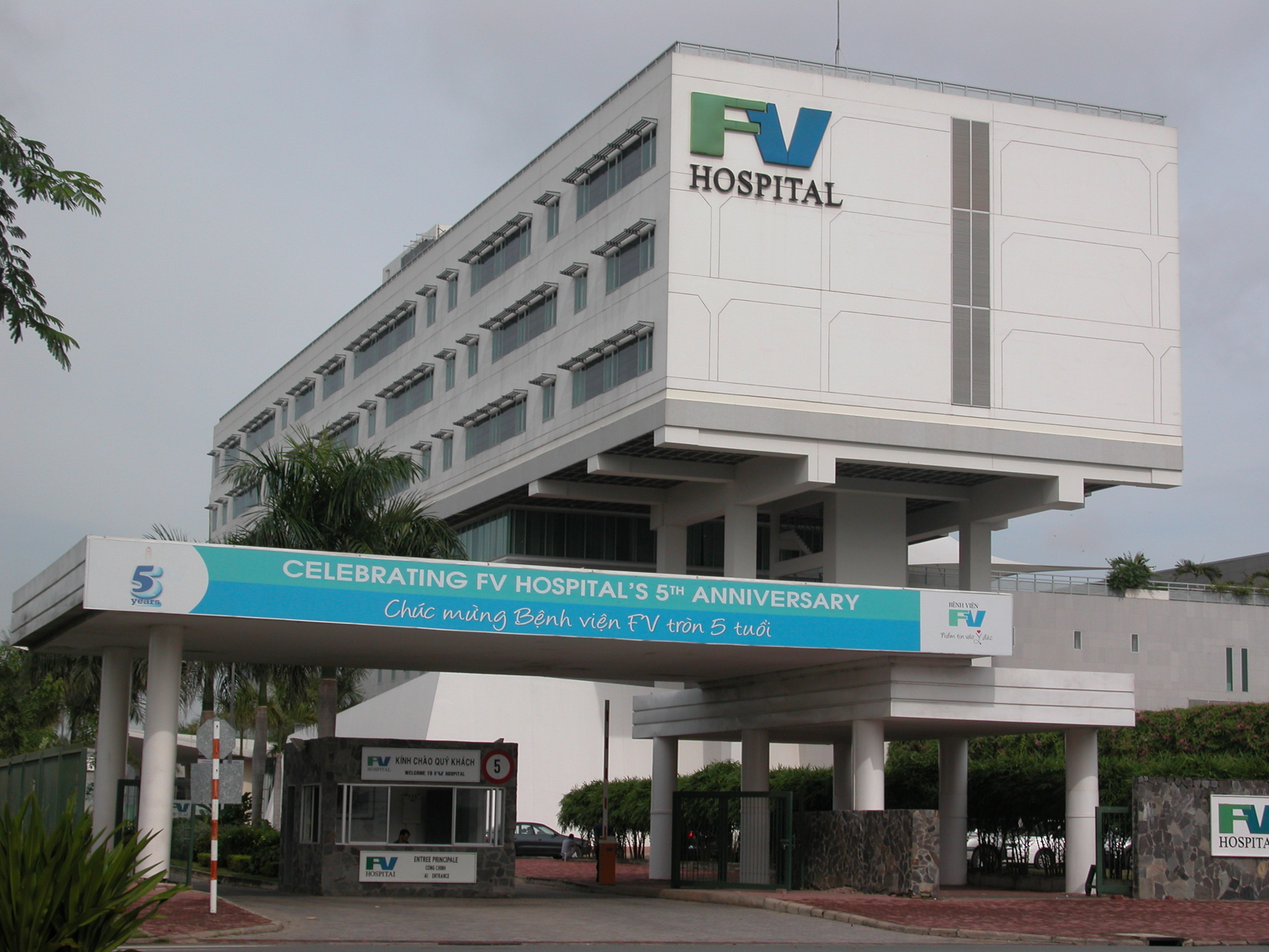 FV hospital in 7th district, Ho Chi Minh City, Vietnam.